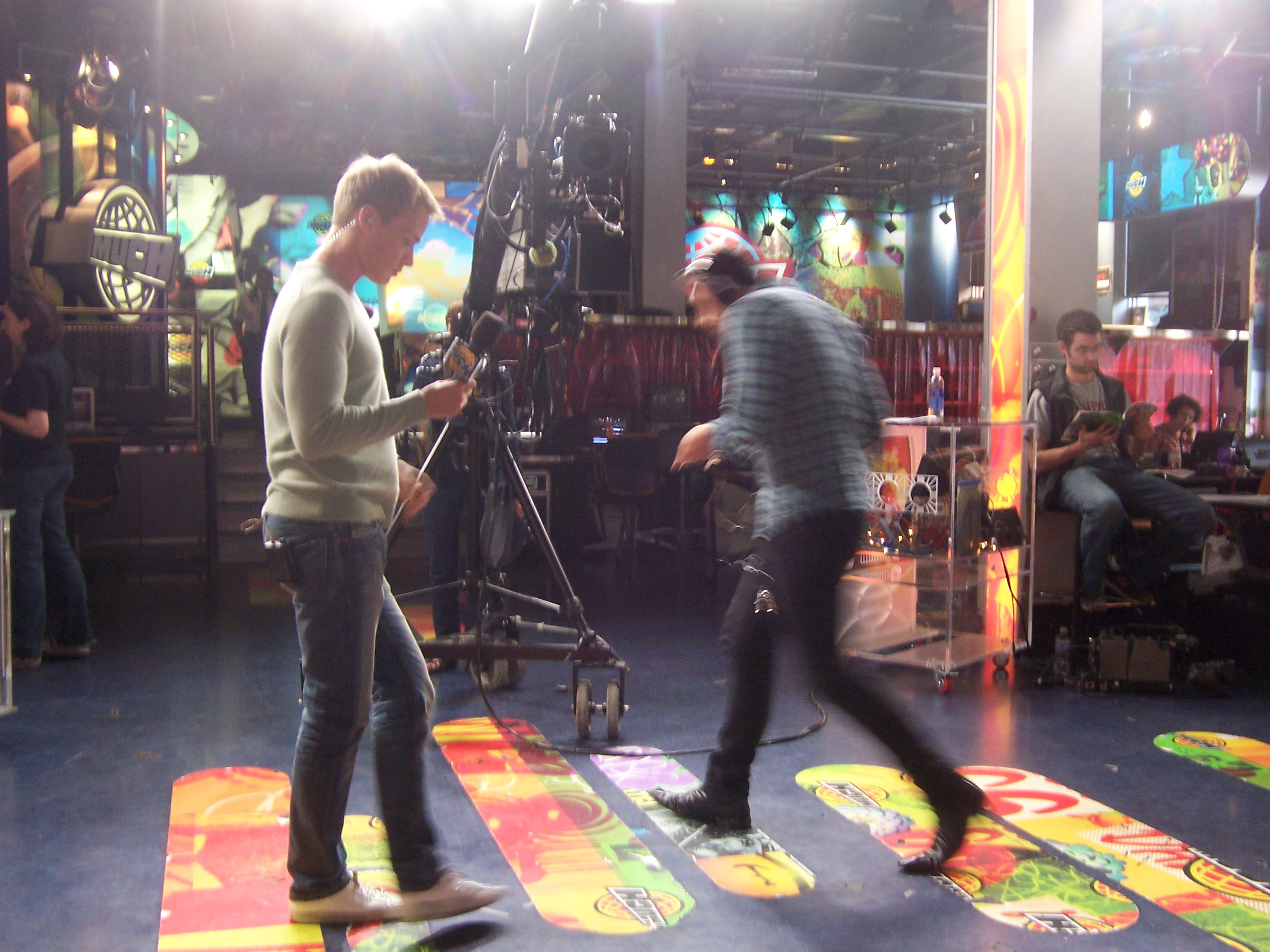 MOD